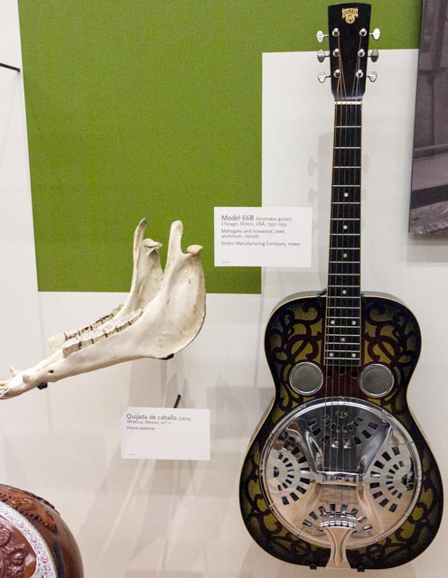 Dobro Model 66B (1932-1933) resonator guitar, Quijada de caballo - MIM PHX Model 66B (resonator guitar) Chicago, Illinois, USA, 1932-1933 ? Mahogany and ... steel, ... Dobro Manufacturing Company, maker Quijada de caballo ... ... We read about the Musical Instrument Museum (MIM) on Trip Advisor - it was the top rated attraction in Phoenix - and now we can see why! The museum is dedicated to musical instruments from around the world - the collection is fascinating, the exhibits are great and the hands-on displays were fun. We spent almost 5 hours here and still felt rushed - this place is definitely worth a detour. I know nothing about musical instruments so if you happen to know what a particular instrument is, please feel free to comment on it. I tried to include as many labels as possible. The museum is in Phoenix, AZ - we visited it in March 2014.